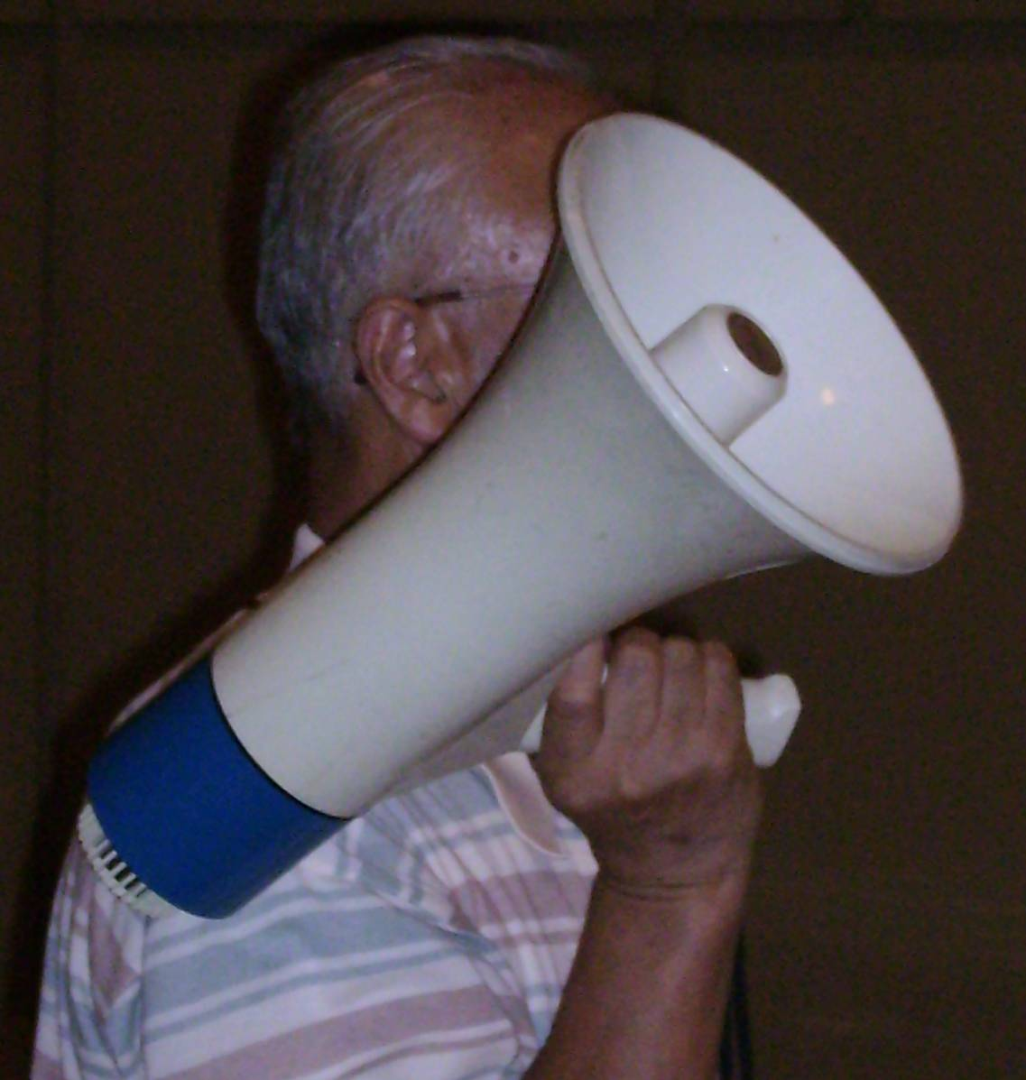 An all-in-one style electric megaphone handled by a person.